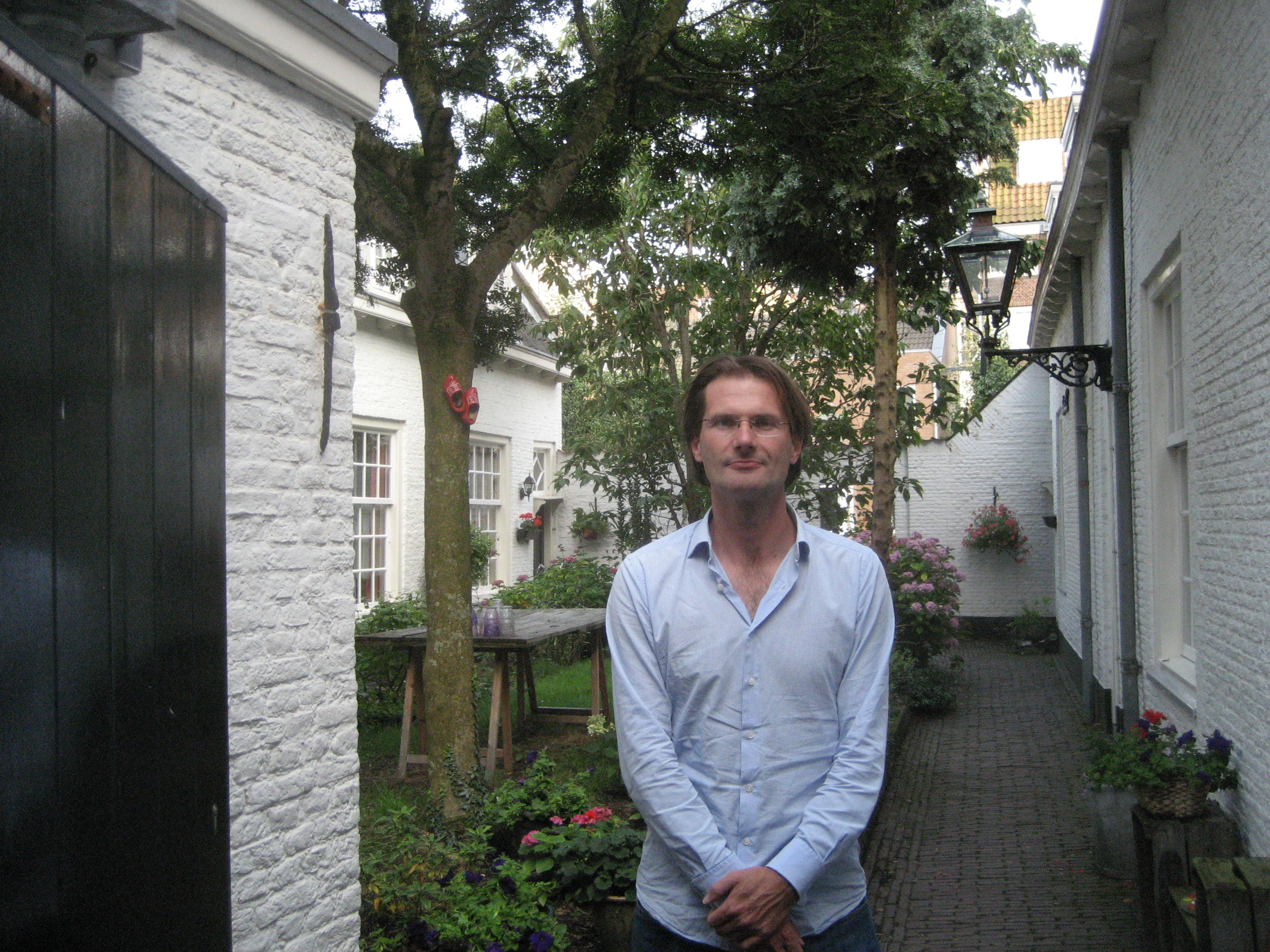 Dutch author Christiaan Weijts (July 2015)